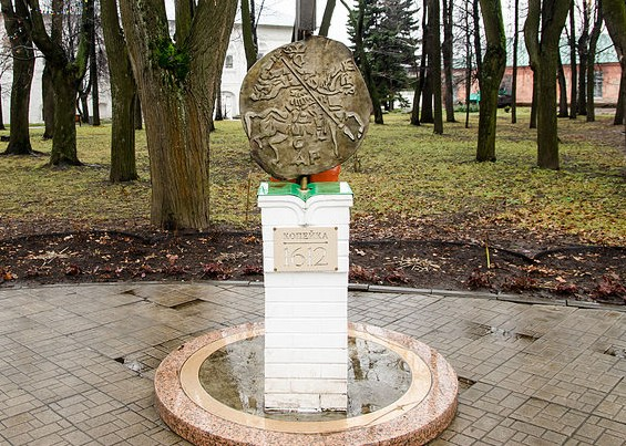 Monument to the 1612 kopek (a subdivision of the Russian ruble) in Yaroslavl, Russia.